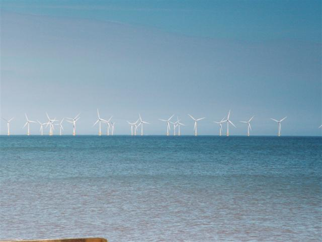 The wind turbines of Scroby Sands wind farm near Caister-on-Sea, Norfolk, England